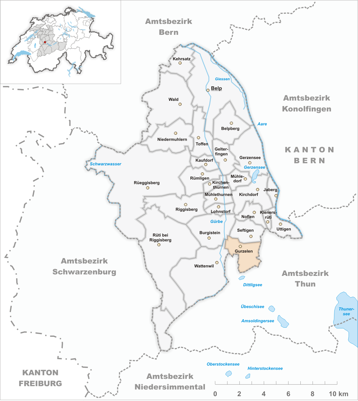 Municipality Gurzelen